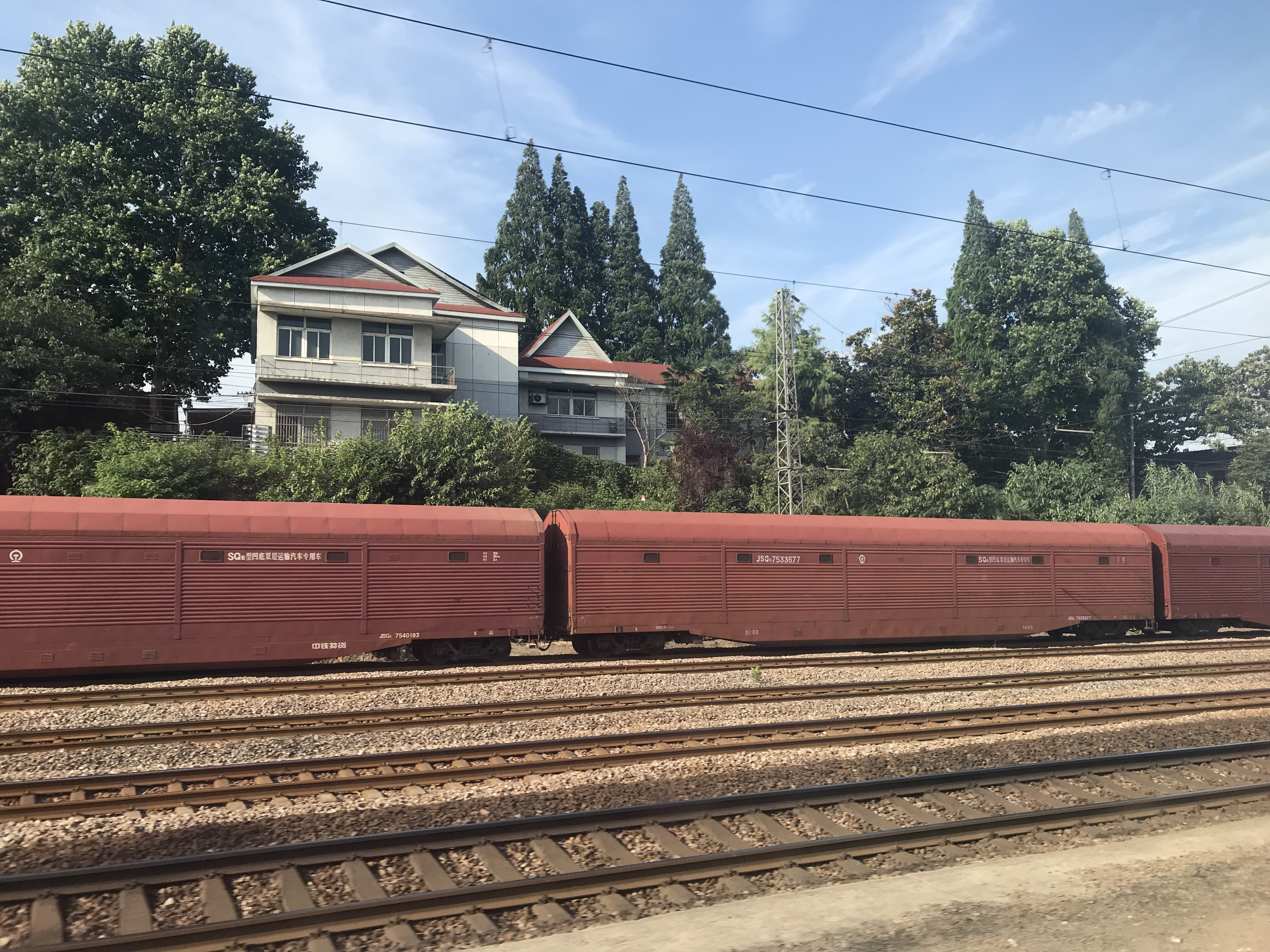 201806 Station Building of Linchang Station